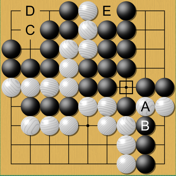 Simplified example of a ko fight, with a sizeable ko and listed ko threats.